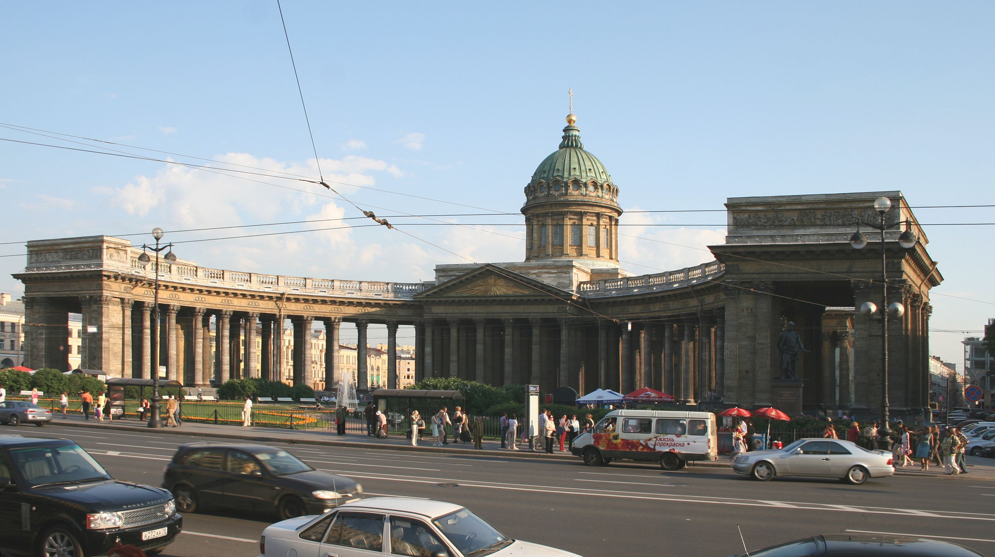 Kazan Cathedral